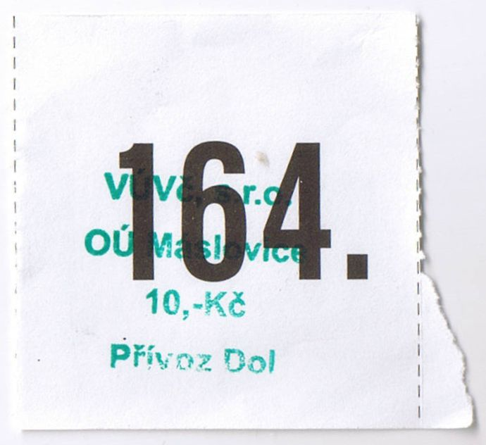 A ticket from the Vltava ferry Libčice - Dol.